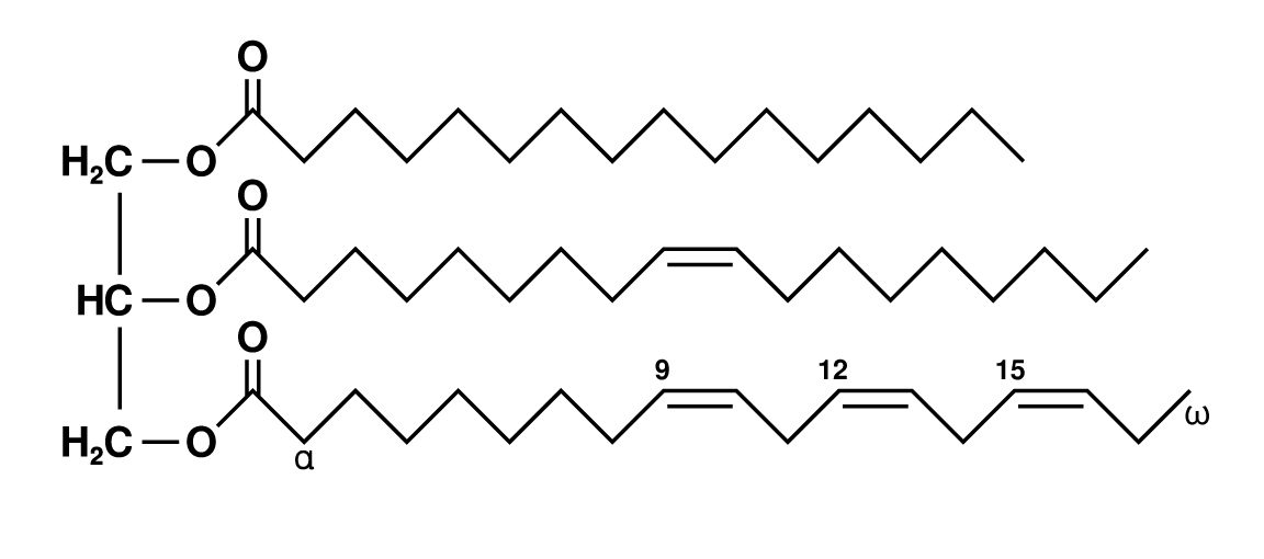 shorthand formula of a fat triglyceride molecule